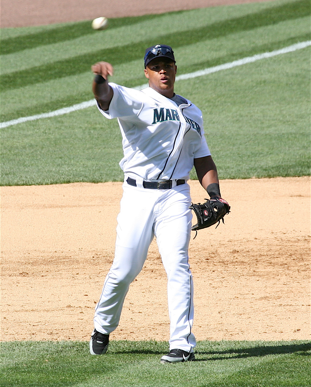 Adrián Beltré of the Seattle Mariners, throwing a ball.